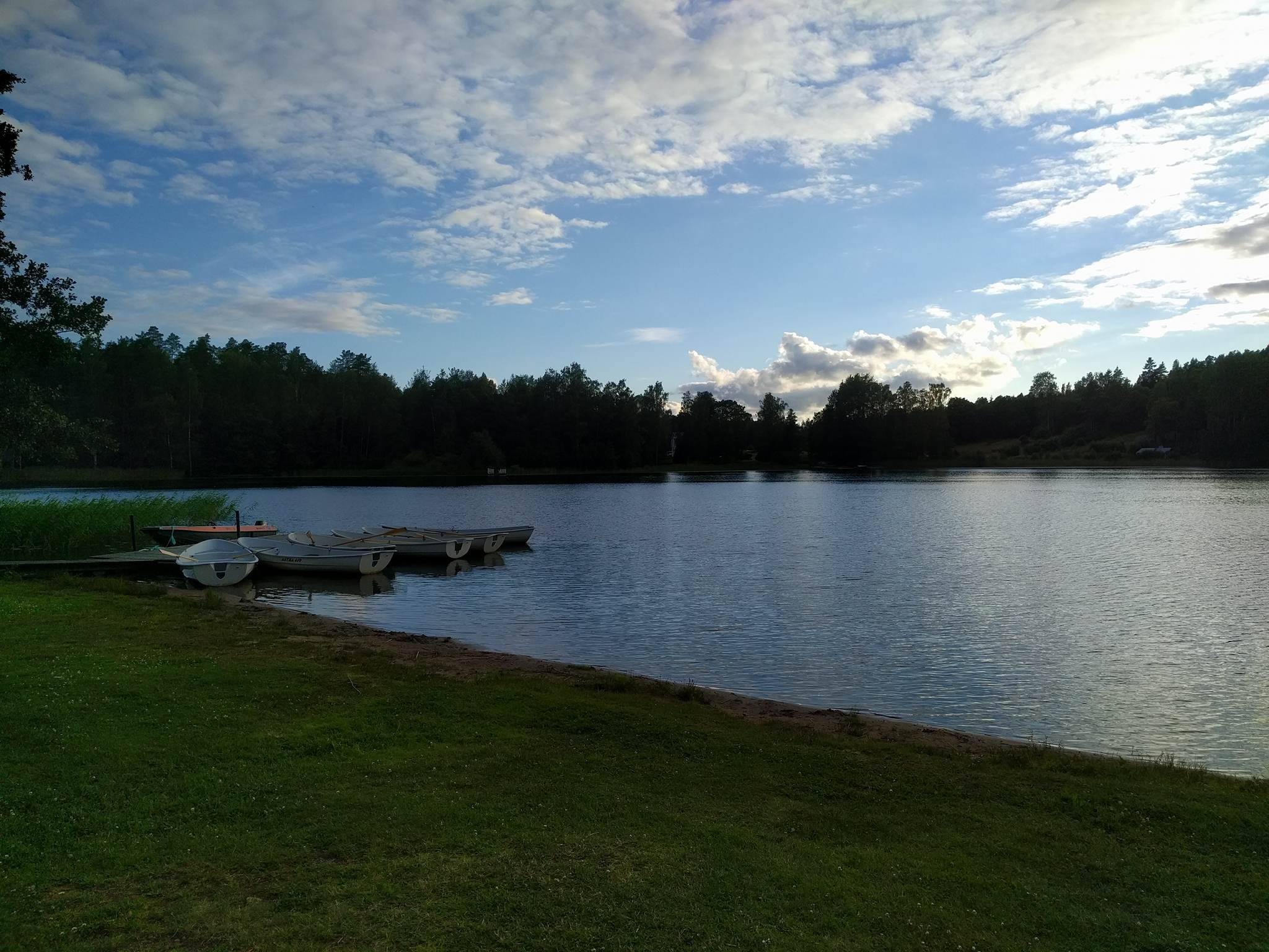 Lake Veckjärvi, Porvoo, Eastern Uusimaa. The photo is taken from the Haaselholma beach.